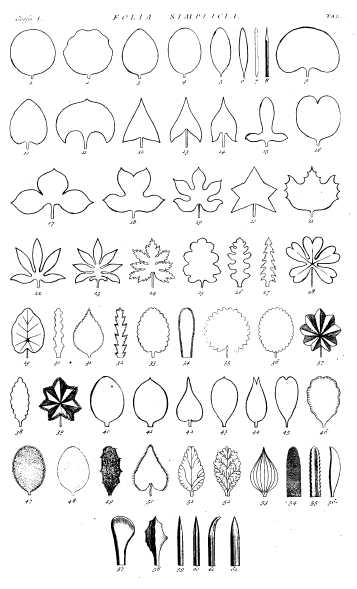 Folia simplicia. Illustration from Hortus cliffortianus: plantas exhibens quas, in hortistam vivis quam siccis, Hartecampi in Hollandia, coluit vir nobilissimus et generosissimus Georgius Clifford… Amstelaedami: 1737